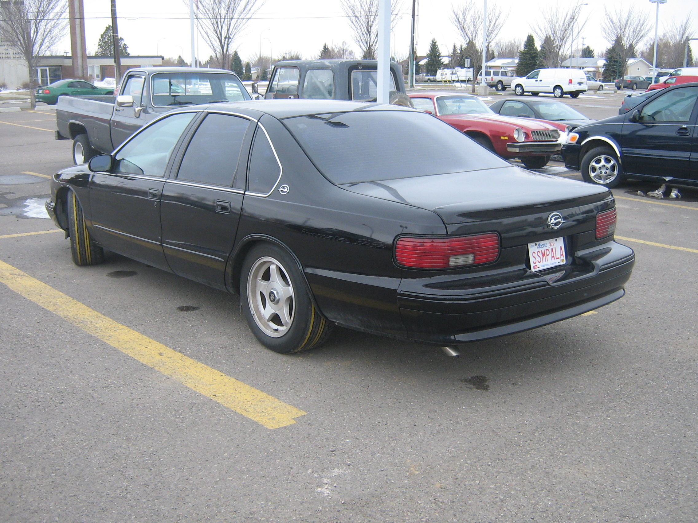 Chevrolet Impala SS - notice the custom plate.